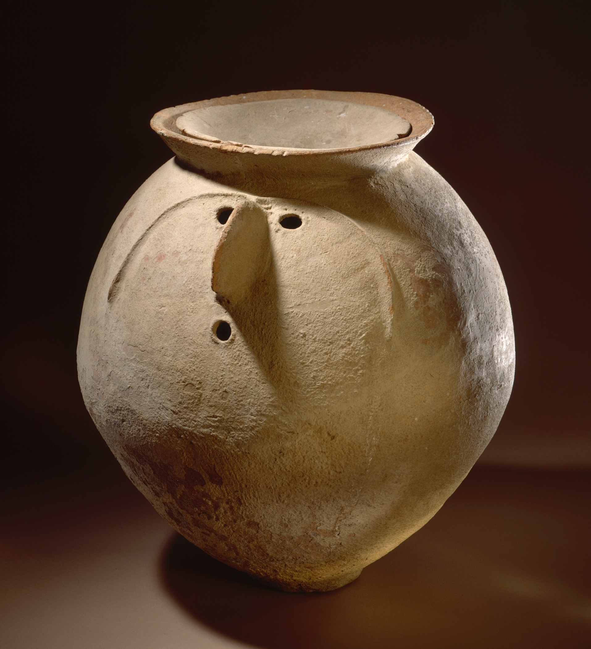 Pakistan, Swat Valley, Gandhara Grave Culture, circa 1200 B.C. Furnishings; Accessories Terracotta (a) Urn: 17 x 15 in. (43.18 x 38.1 cm); (b) Lid: 2 x 8 1/4 in. (5.08 x 20.96 cm) Gift of Marilyn Walter Grounds (AC1994.234.8a-b) South and Southeast Asian Art